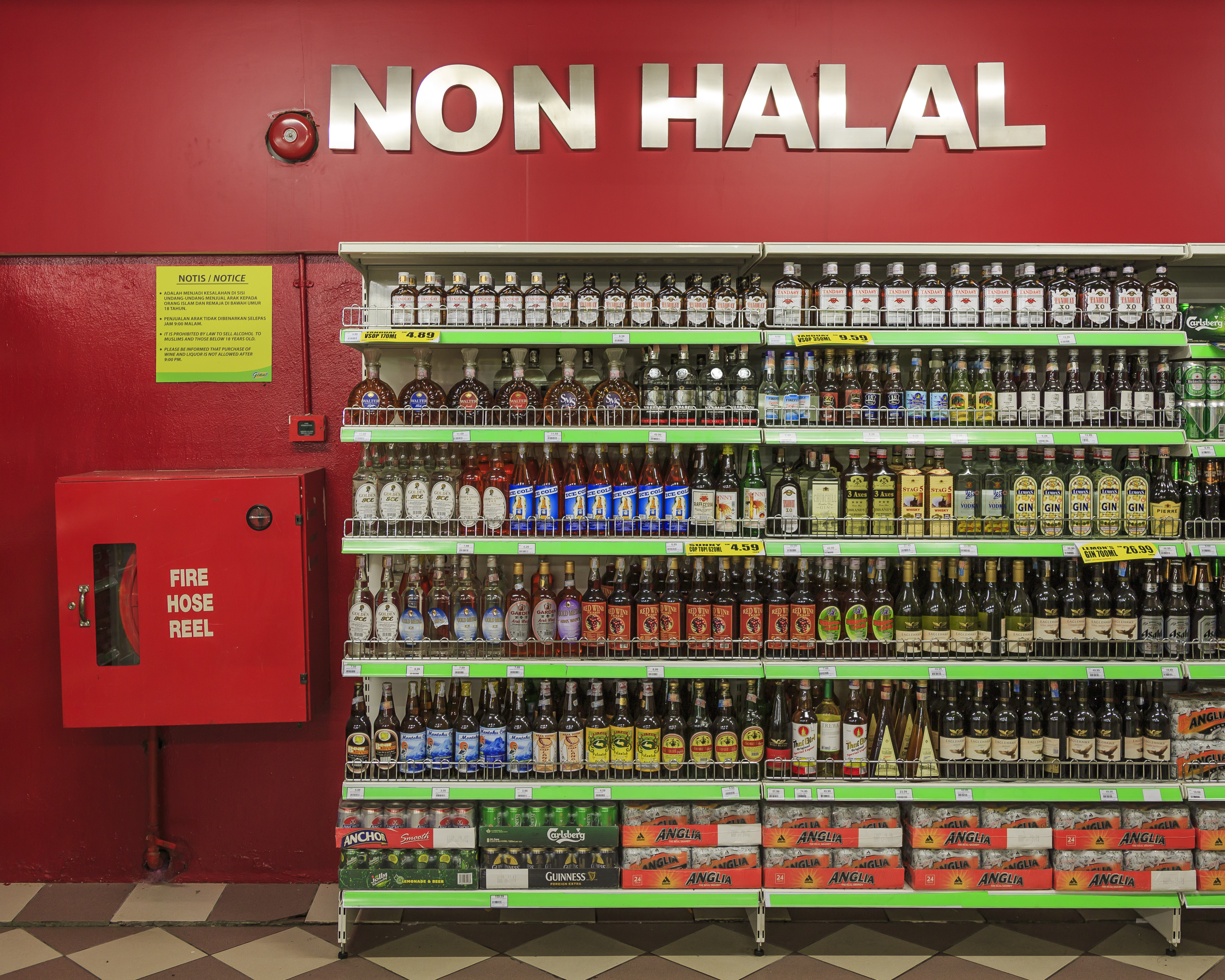 Papar, Sabah, Malaysia: Non-Halal corner in GIANT SUPERMARKET